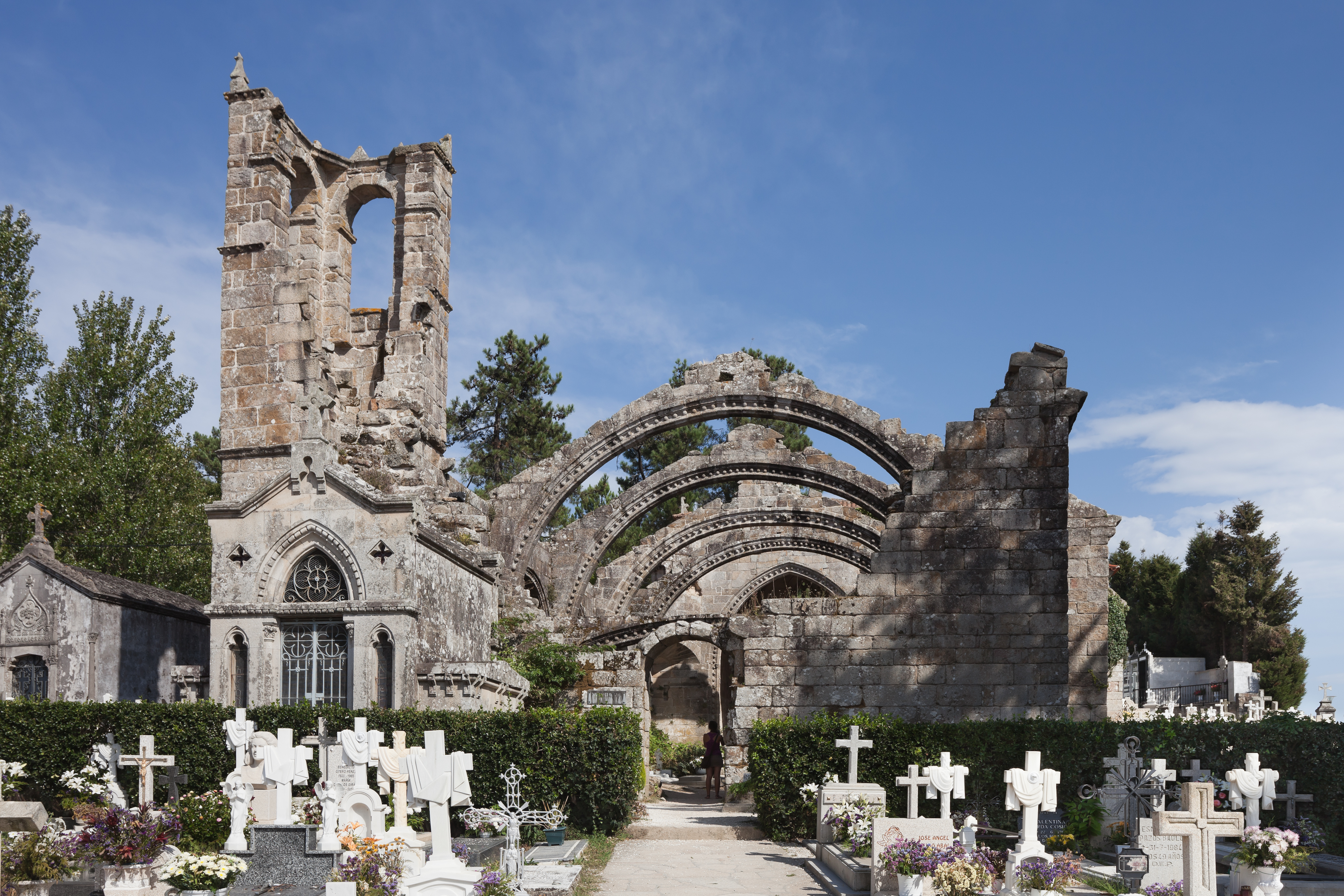 Arches of Ancient Saint Mary church in Cambados, Galicia (Spain)